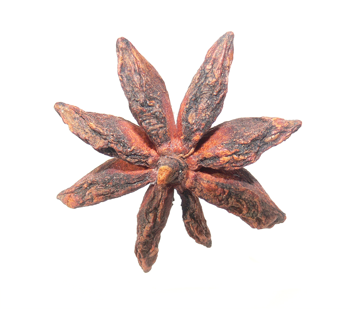 front of star aniseed fruit shows reverse side. binomial: Illicium verum